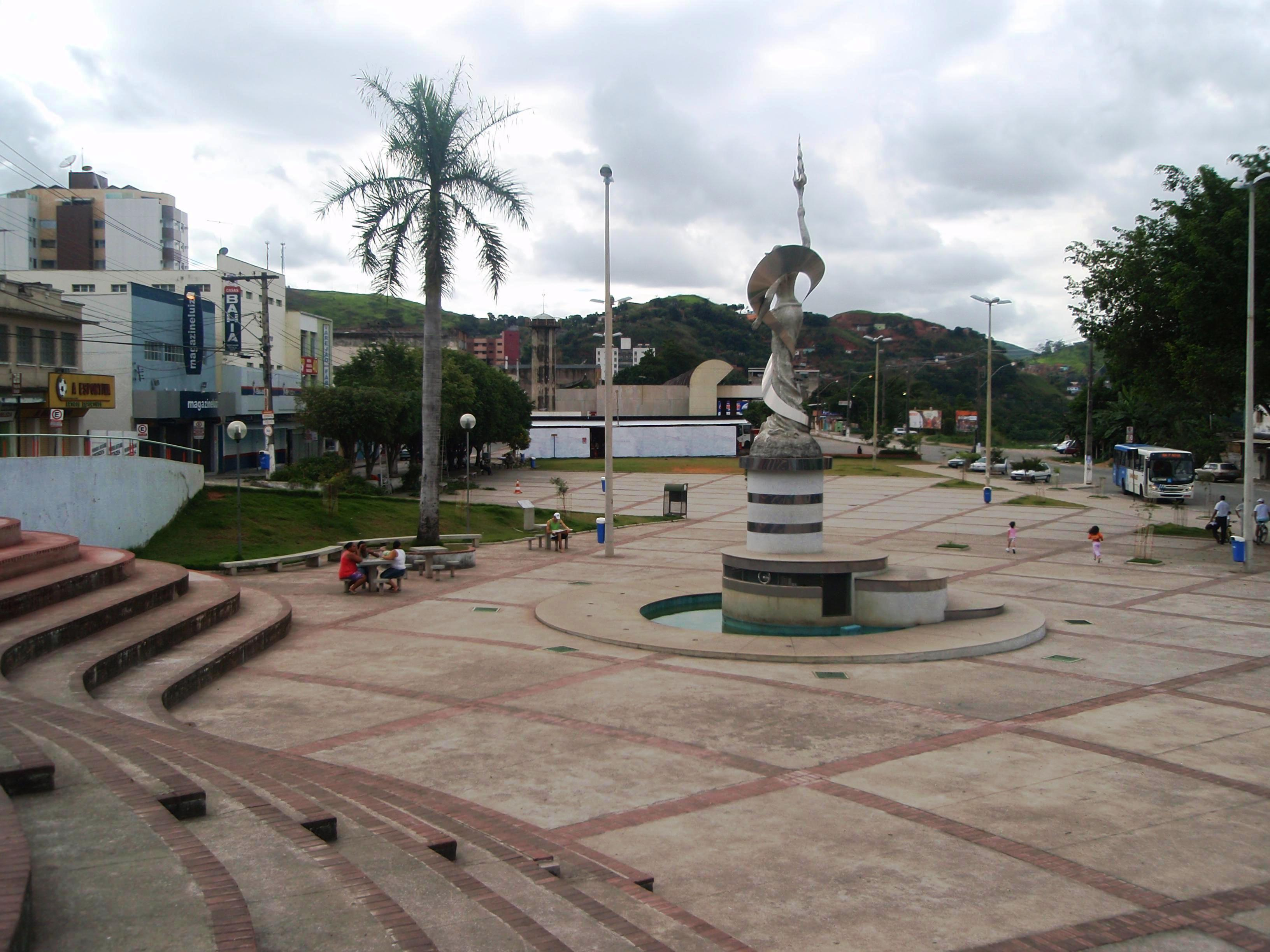 Estação Square, in Coronel Fabriciano, Minas Gerais, Brazil.